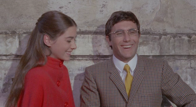 Al Bano & Romina Power in a scene of the film Nel sole